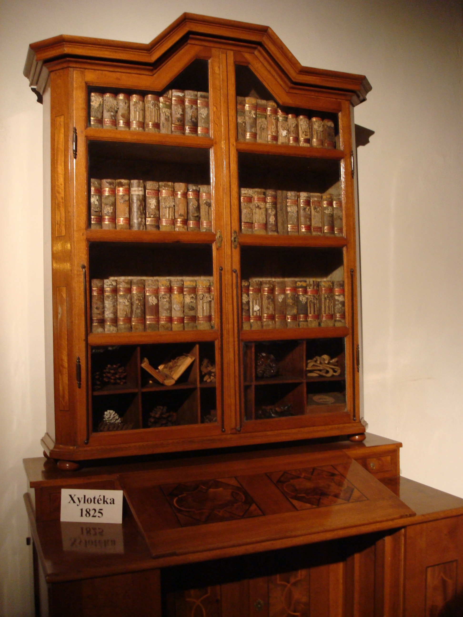 Karel von Hinterlagen Xylotheque (1825), Strahov Monastery Librayry, Prague (Czech Republic)